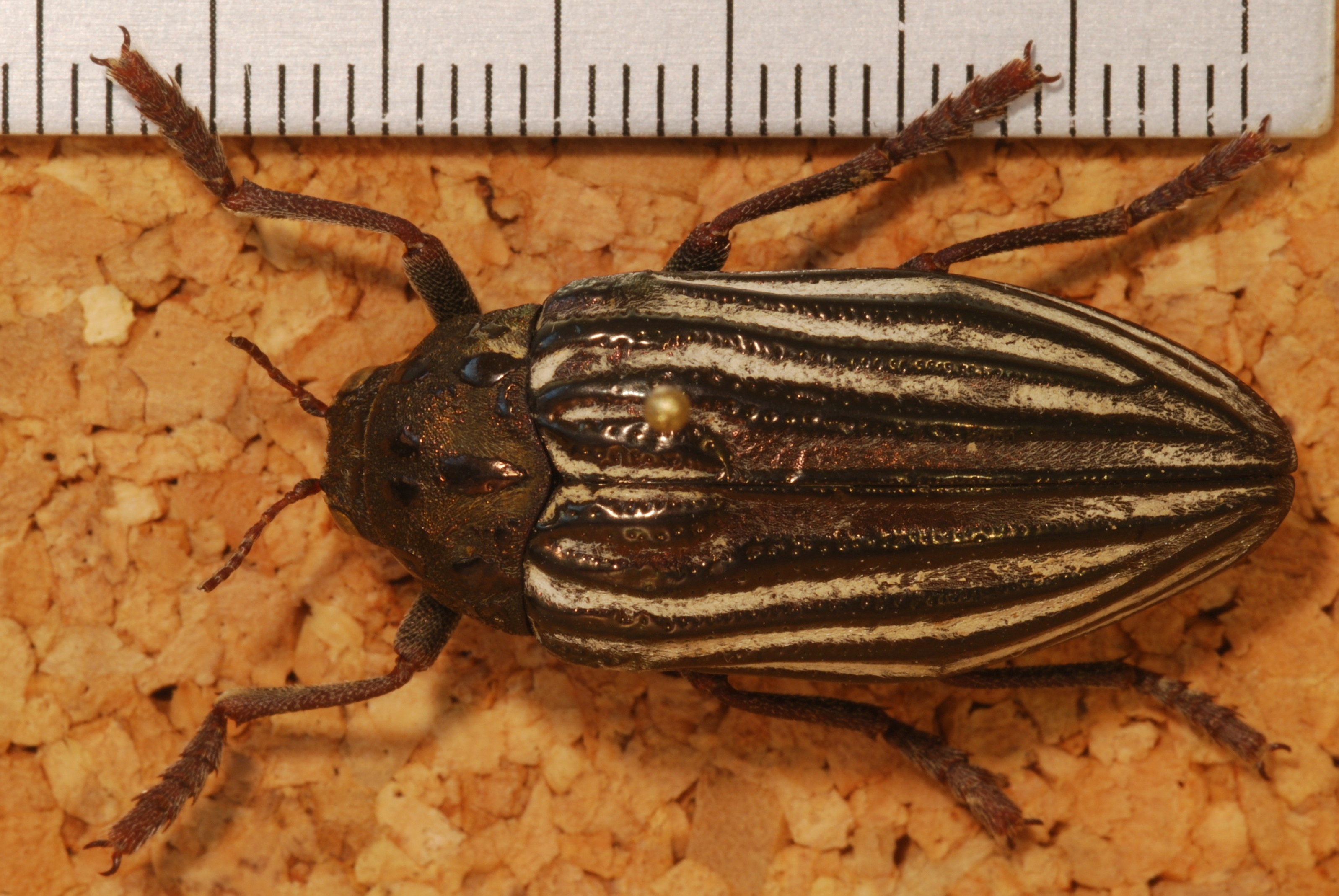 Dorood, Zagros Mounts, Lorestan, IRAN